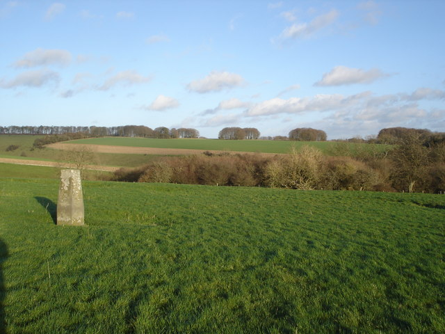 Stone inside ditch on Rotherley Down The Earthworks (see the ditch in shadow at right of photo) have the stone explaining the findings of Pitt-Rivers during the excavations.